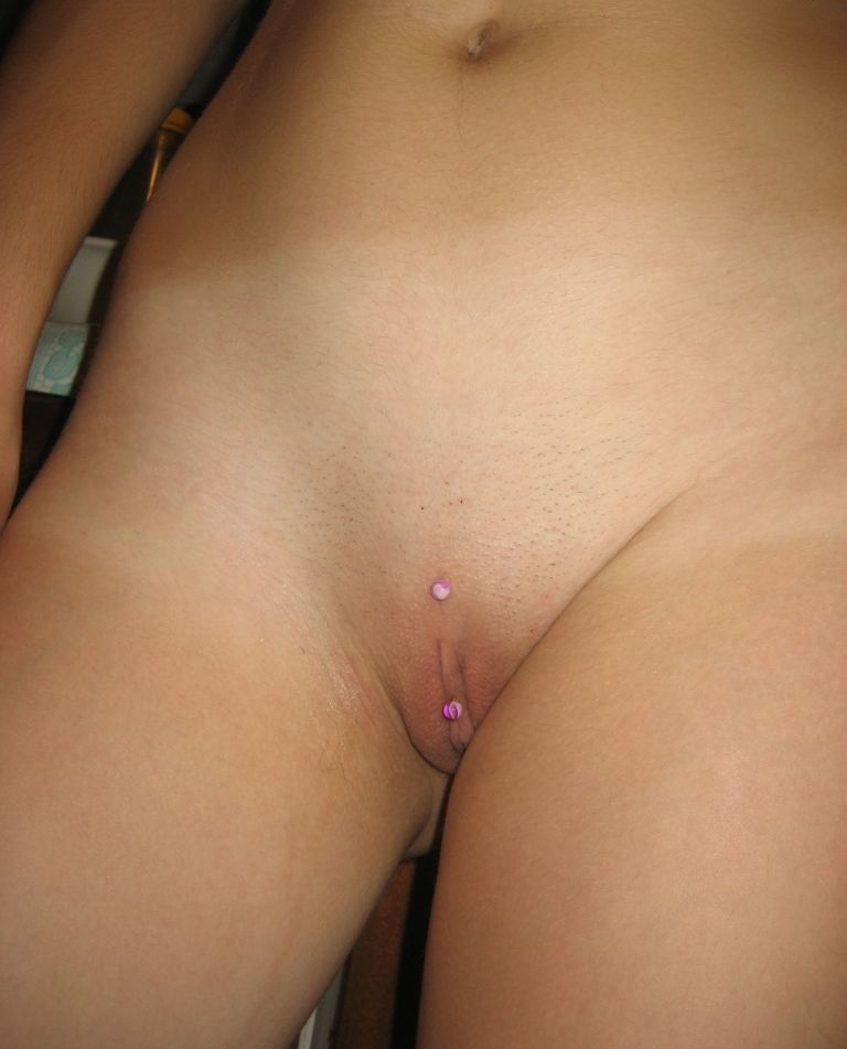 Nefertiti piercing - passing through Mont venus